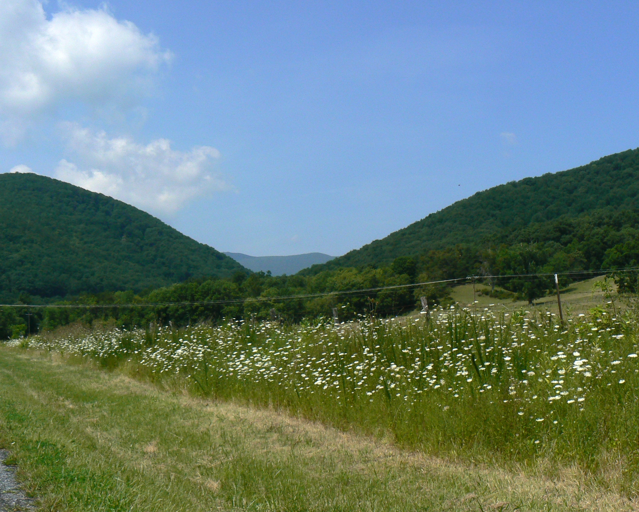 Buffalo Gap, Augusta County, Virginia divides Little North Mountain